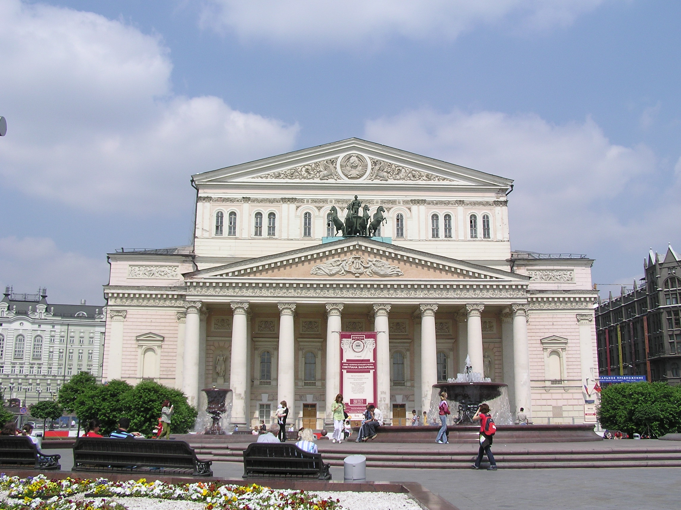 Bolshoi Theatre in 2007